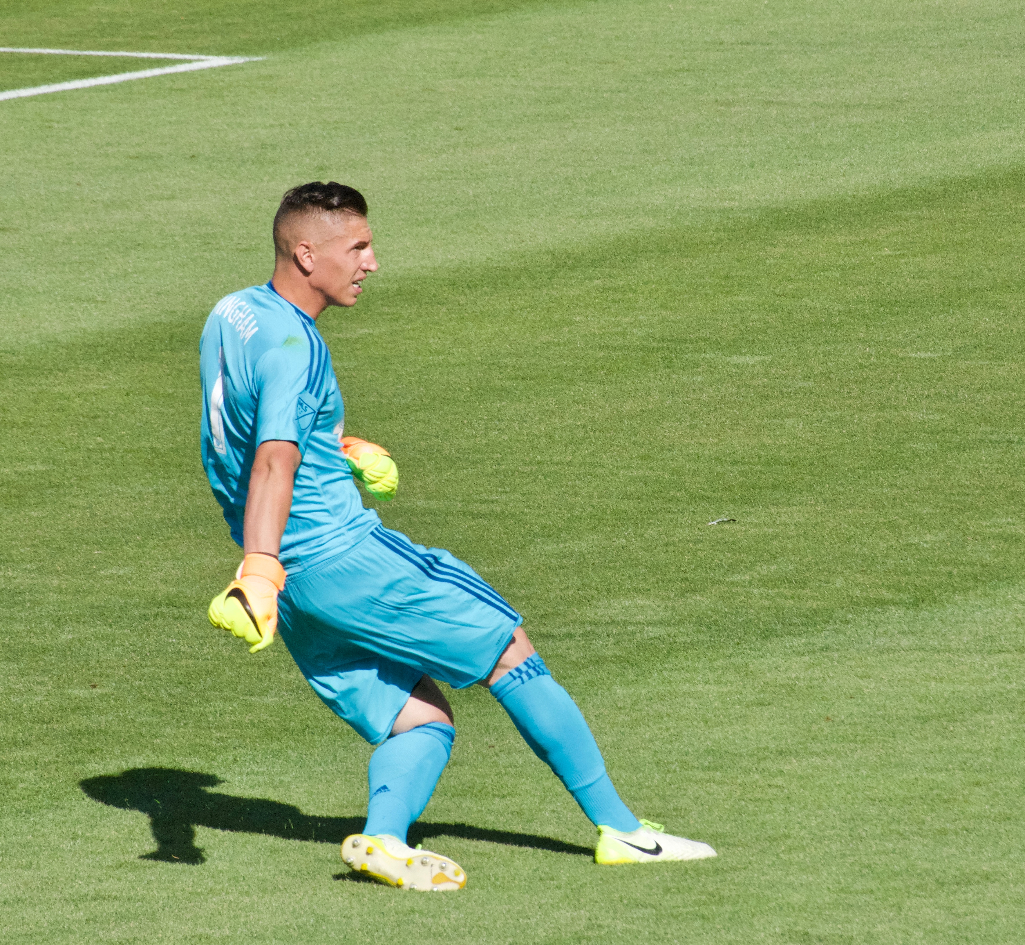 David Bingham playing for San Jose Earthquakes, Avaya Stadium, 29 July 2017